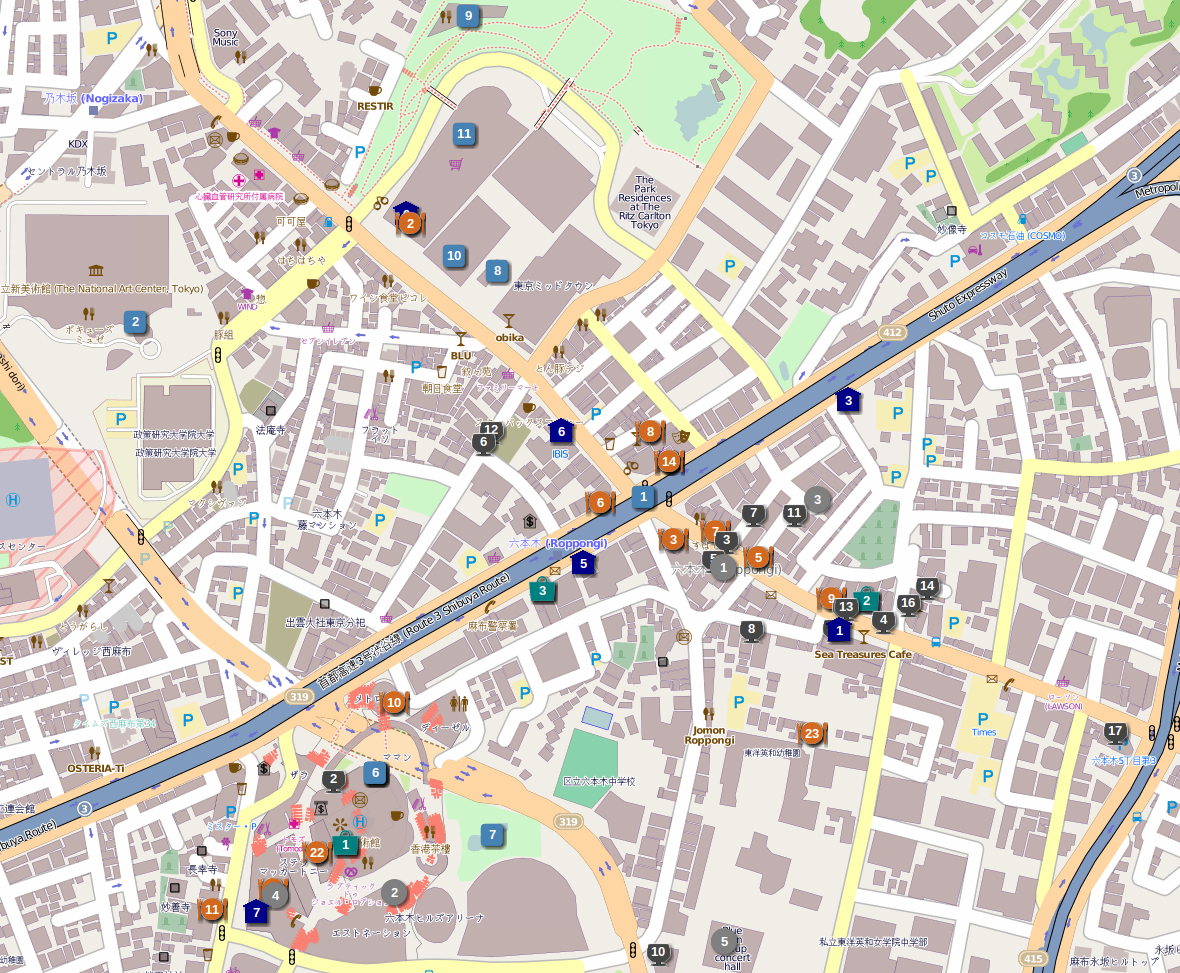 POI map for WIkivoyage